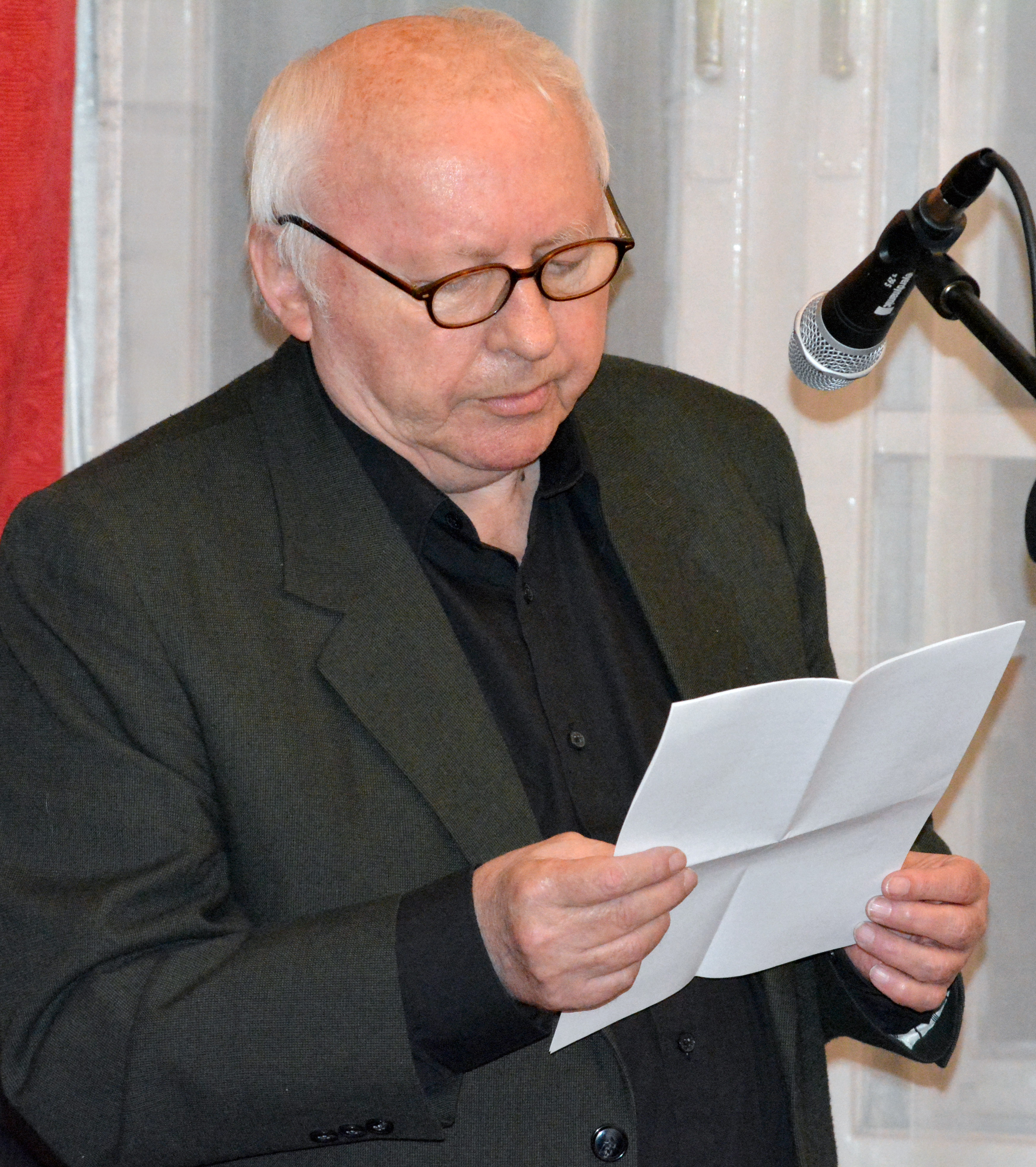 István Ágh Hungarian poet - The Association of Hungarian Journalists greeting reads Lajos Szakolczay 80 birthday.